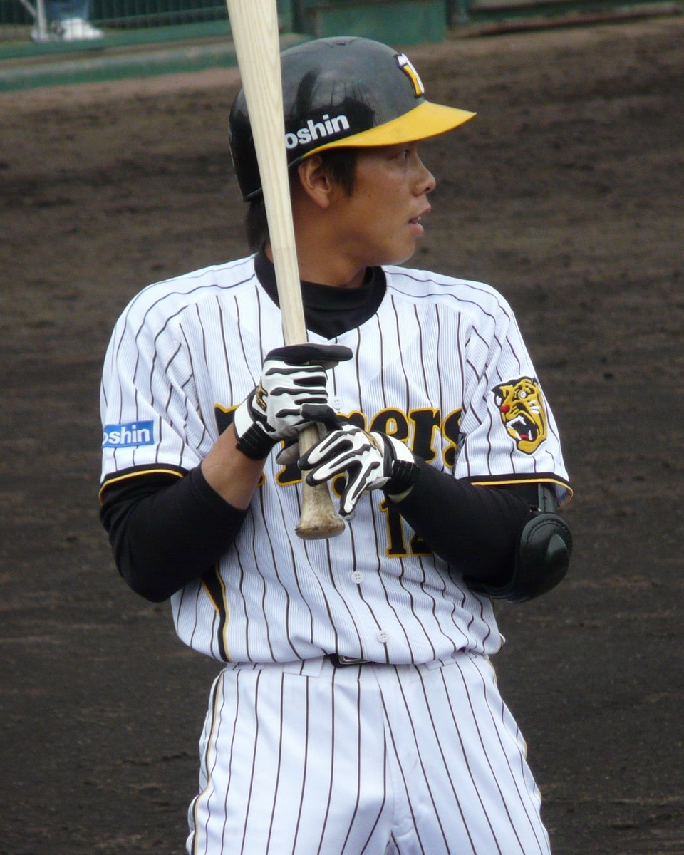 Shintaro Tanaka